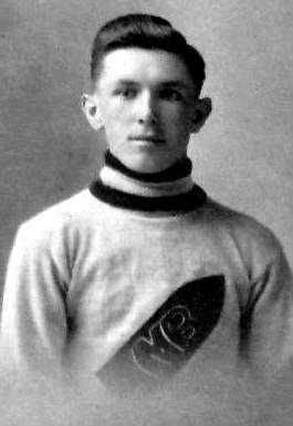 Canadian ice hockey player Frank Boucher of the Ottawa Munitions in 1917–18.